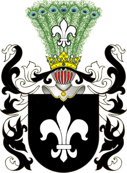 Herb Korsak Clan This image was uploaded in the JPEG format even though it consists of non-photographic data. This information could be stored more efficiently or accurately in the PNG or SVG format. If possible, please upload a PNG or SVG version of this image without compression artifacts, derived from a non-JPEG source (or with existing artifacts removed). After doing so, please tag the JPEG version with Superseded|NewImage.ext and remove this tag. This tag should not be applied to photographs or scans. For more information, see BadJPEG .